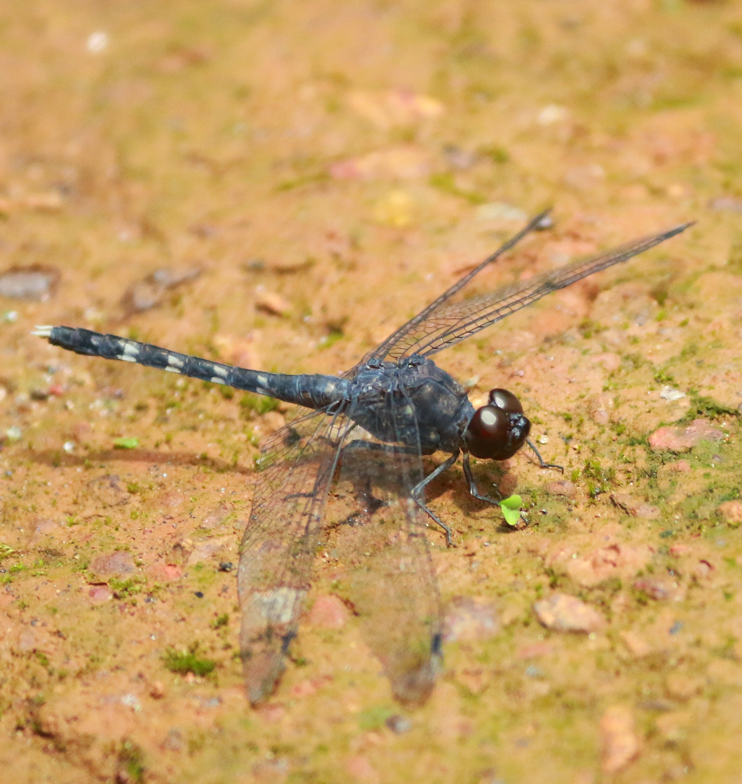 Granite Ghost ,Bradinopyga geminata